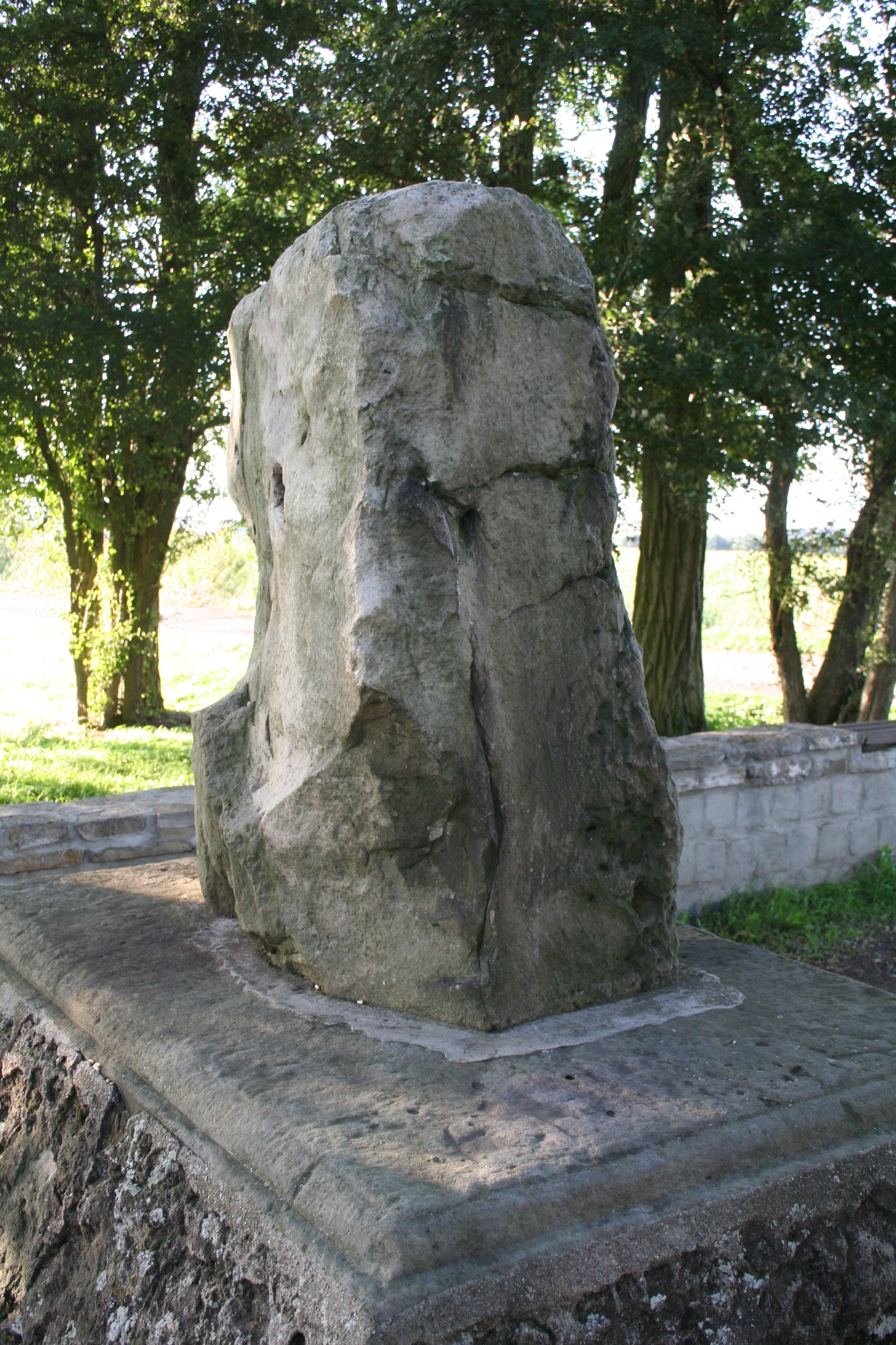 Menhir "Löchriger Stein" ("Holey Stone) or "Hoyerstein" ("Hoyer Stone") near Gerbstedt